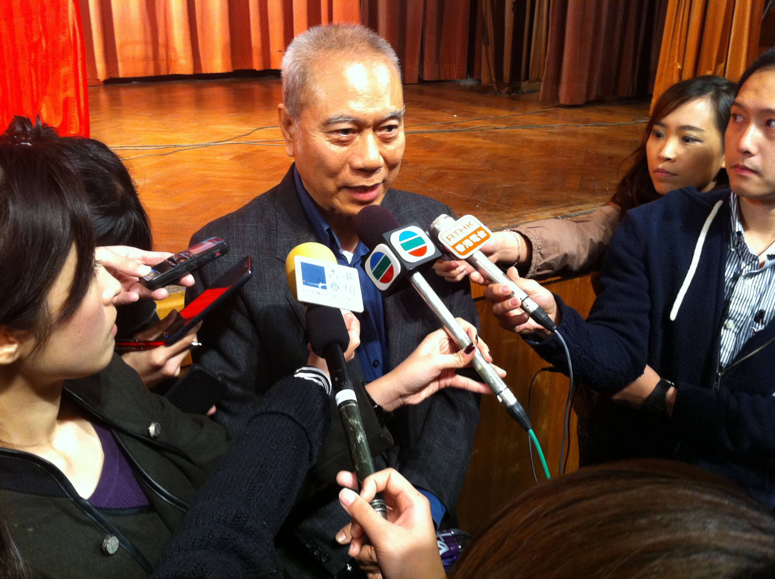 劉迺強在愛港之聲2013年1月26日講座之後.